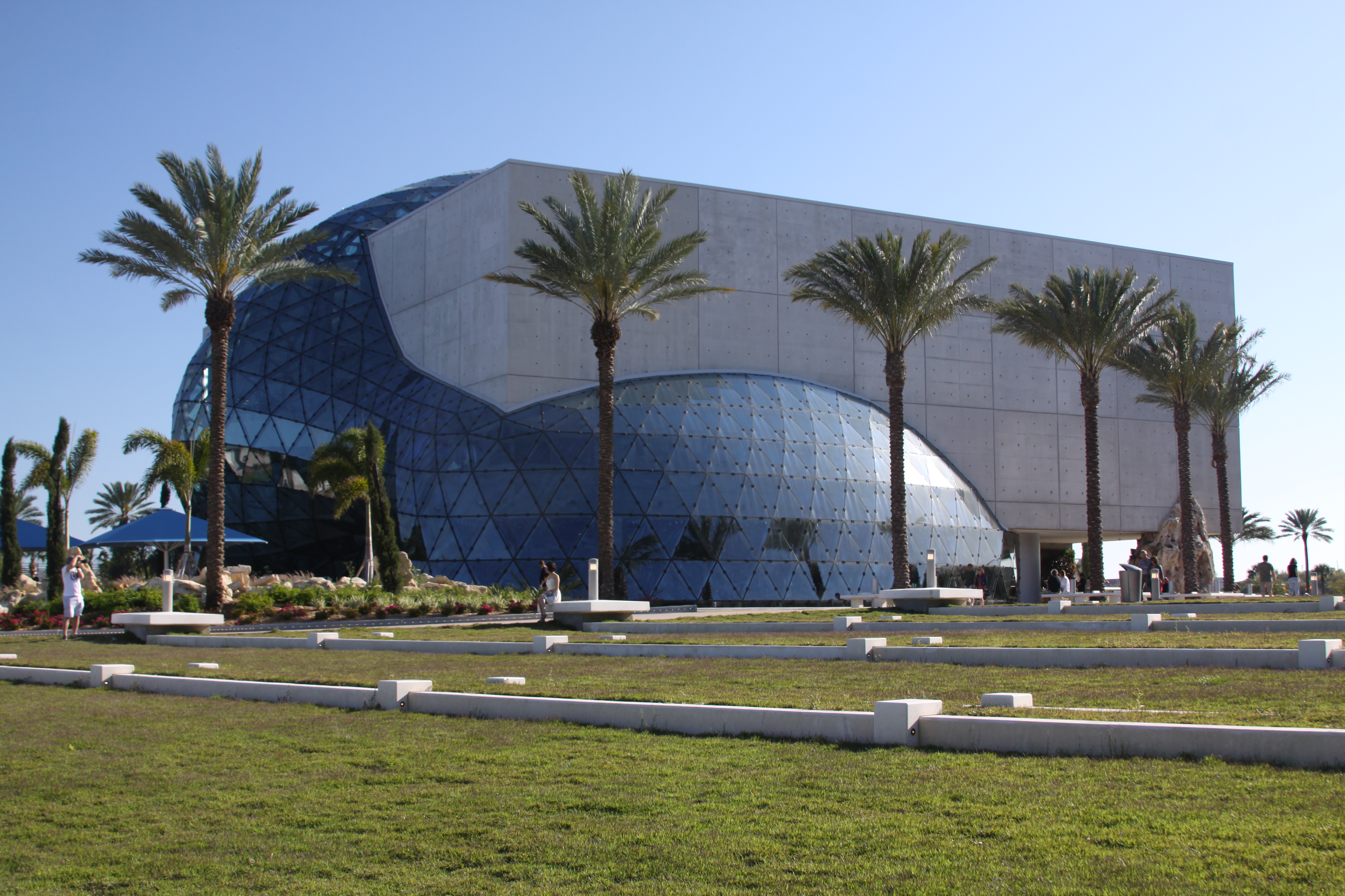 Salvador Dalí Museum (2011) at St. Petersburg, Florida.